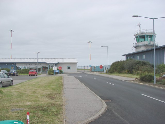 Wick Airport